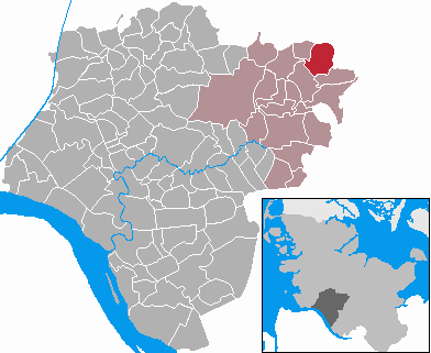 This map shows the area of the municipality Sarlhusen in the Kreis (district) Steinburg, Schleswig-Holstein, Germany.